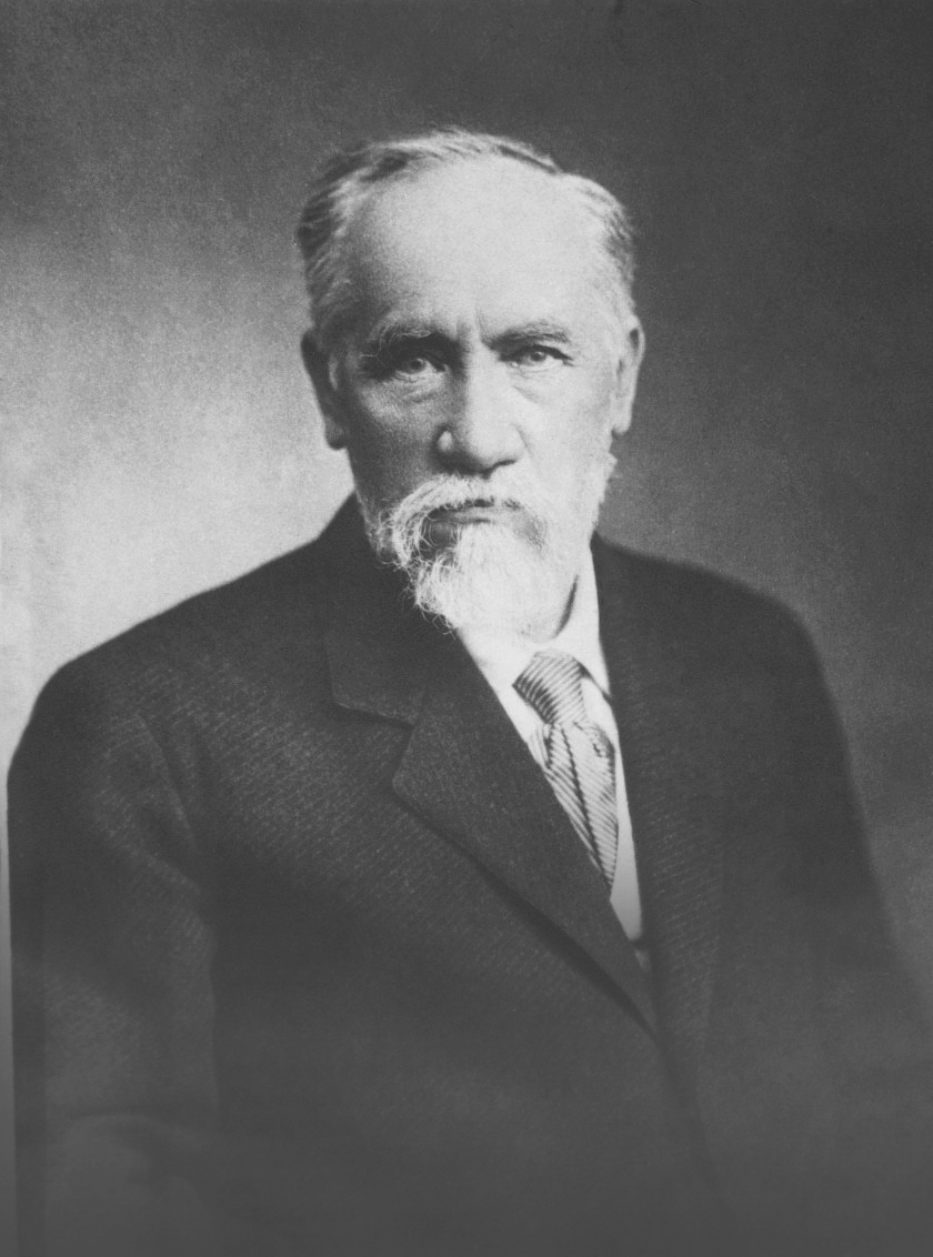 A picture of Professor Sikorsky during the Beilis Trial.